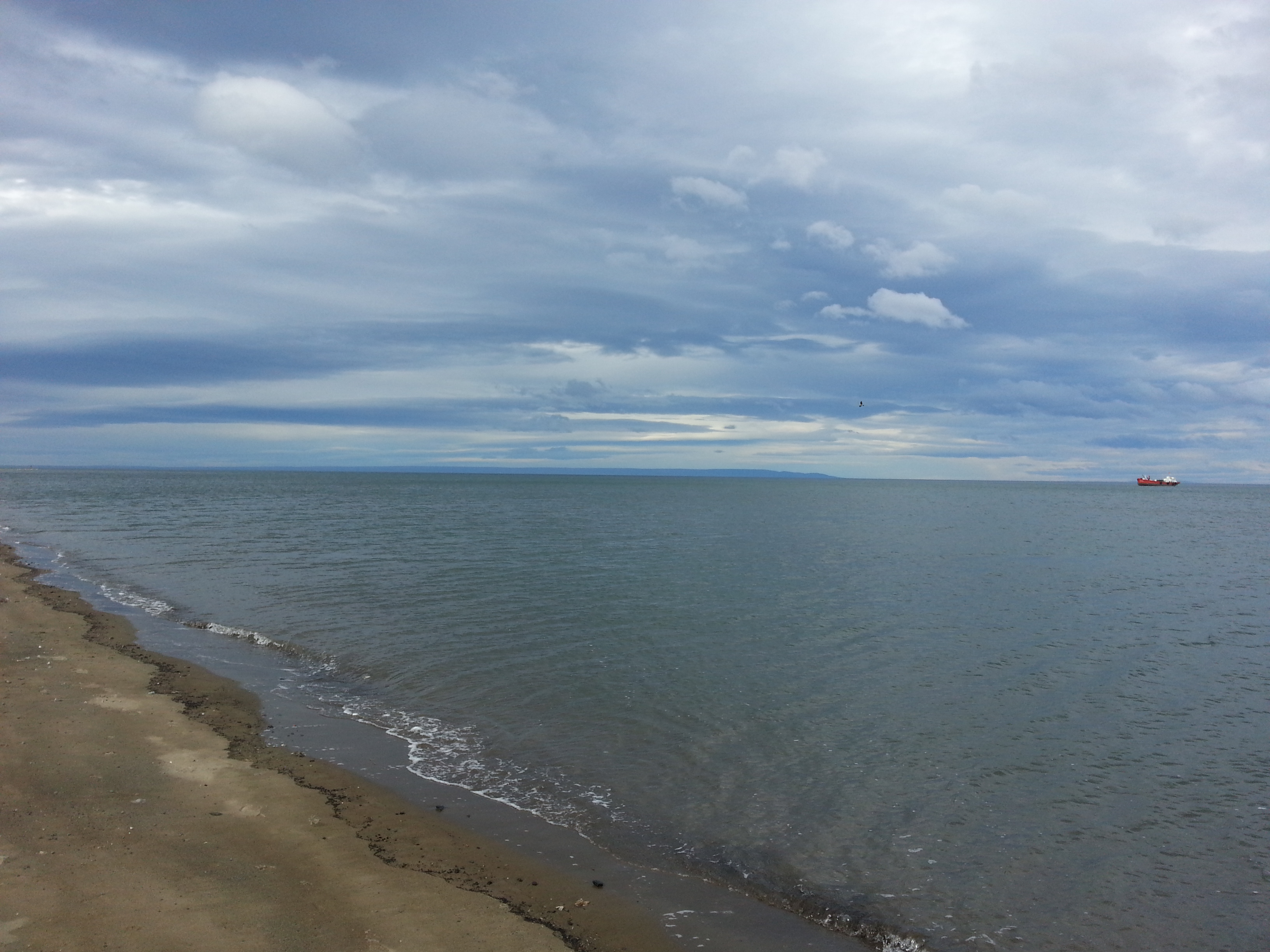 Estrecho de Magallanes